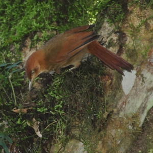 Chestnut-capped Foliage-gleaner at Jacutinga - MG - Brazil